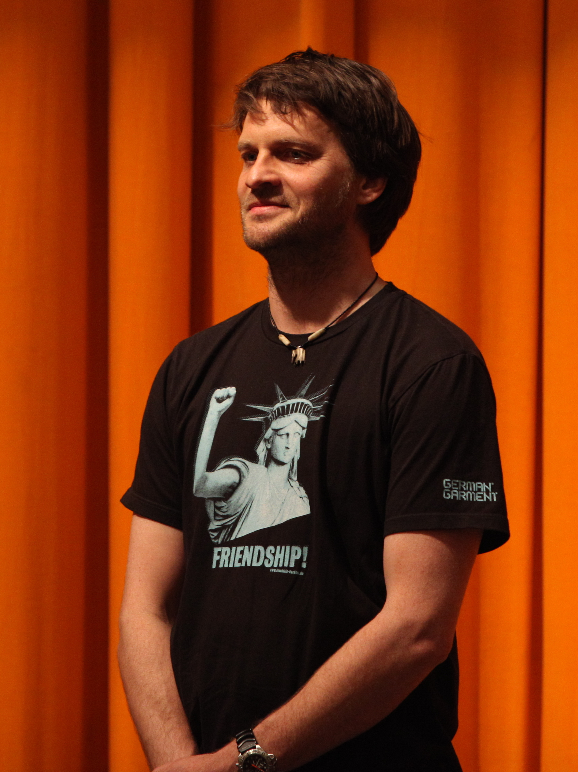 German film director Markus Goller at 2010 Karlovy Vary International Film Festival